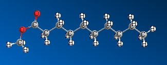 Estasol MD10